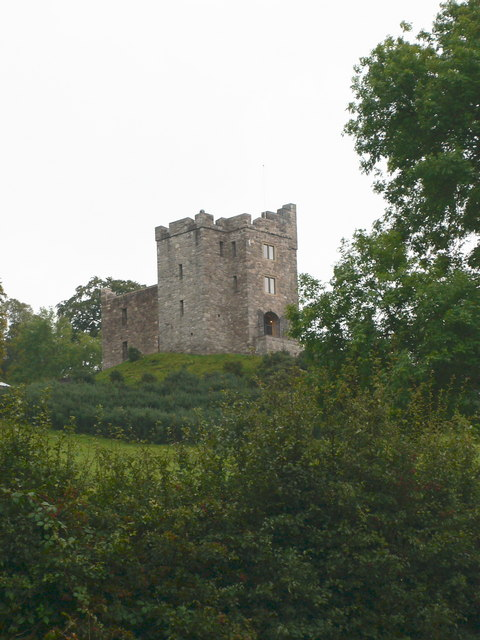 Castell Gyrn The modern "castle" was built fairly recently (20thC) on the western side of Gyrn, overlooking the Vale of Clwyd at Bwlch Pen Barras. Many more mod cons than proper castles!